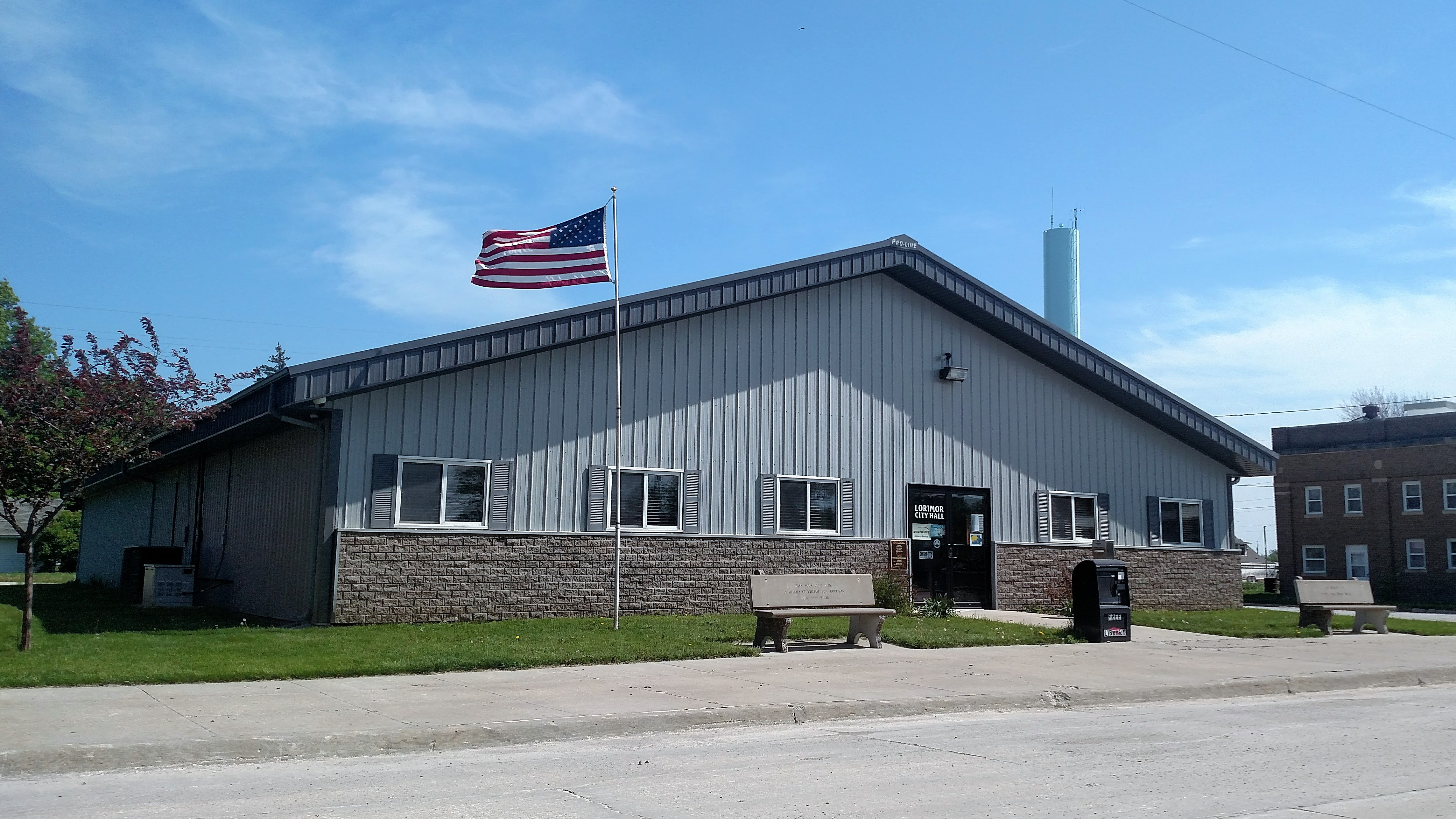 City hall in downtown Lorimor, Iowa